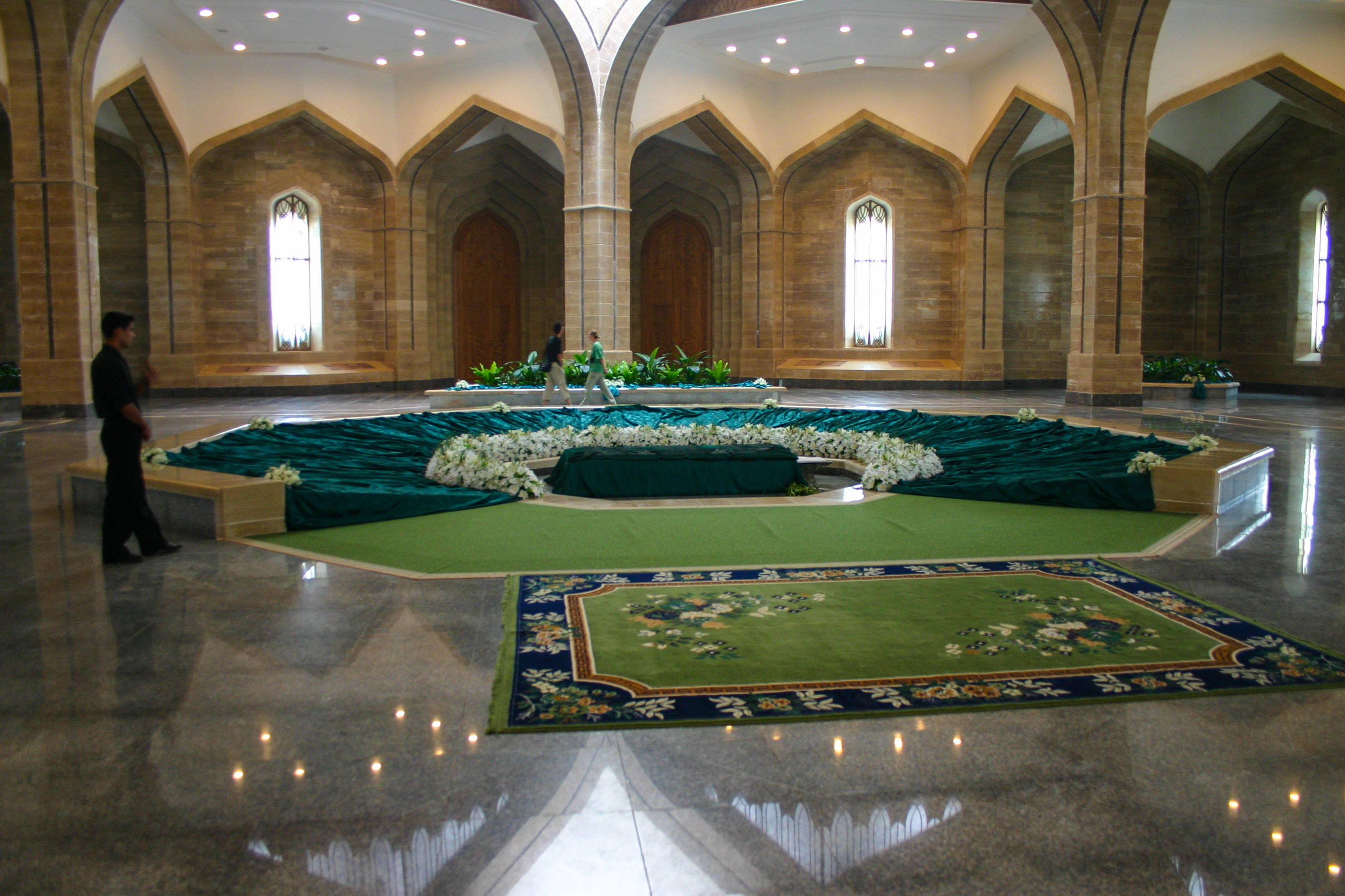 Inside the mausoleum of Hafez al Assad (Qardaga, Syria), with the main tomb in the center